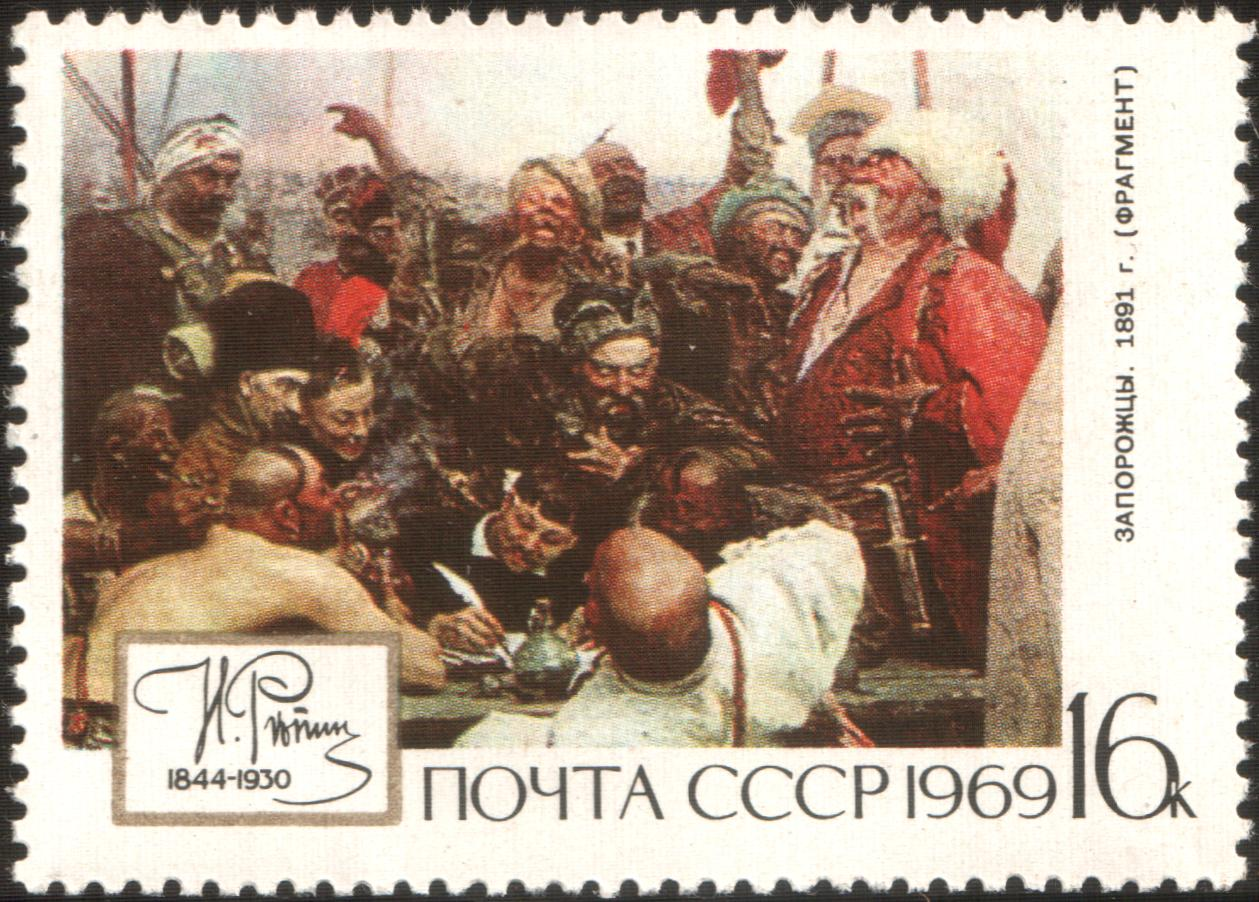 USSR stampː Reply of the Zaporozhian Cossacks. Seriesː 125th Birth Anniversary of Ilya Repin, Painter (1844-1930)